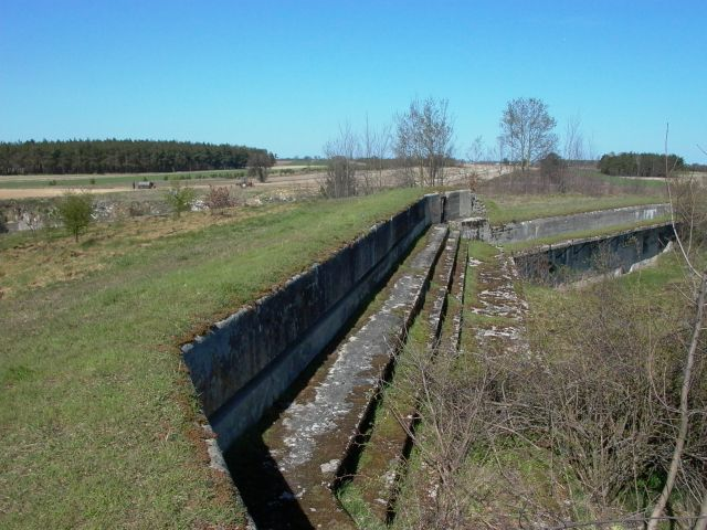 Fotografia przedstawia Fort XII Twierdzy Modlin (XII Fort of the Modlin Fortress). Author: Zbigniew Strucki